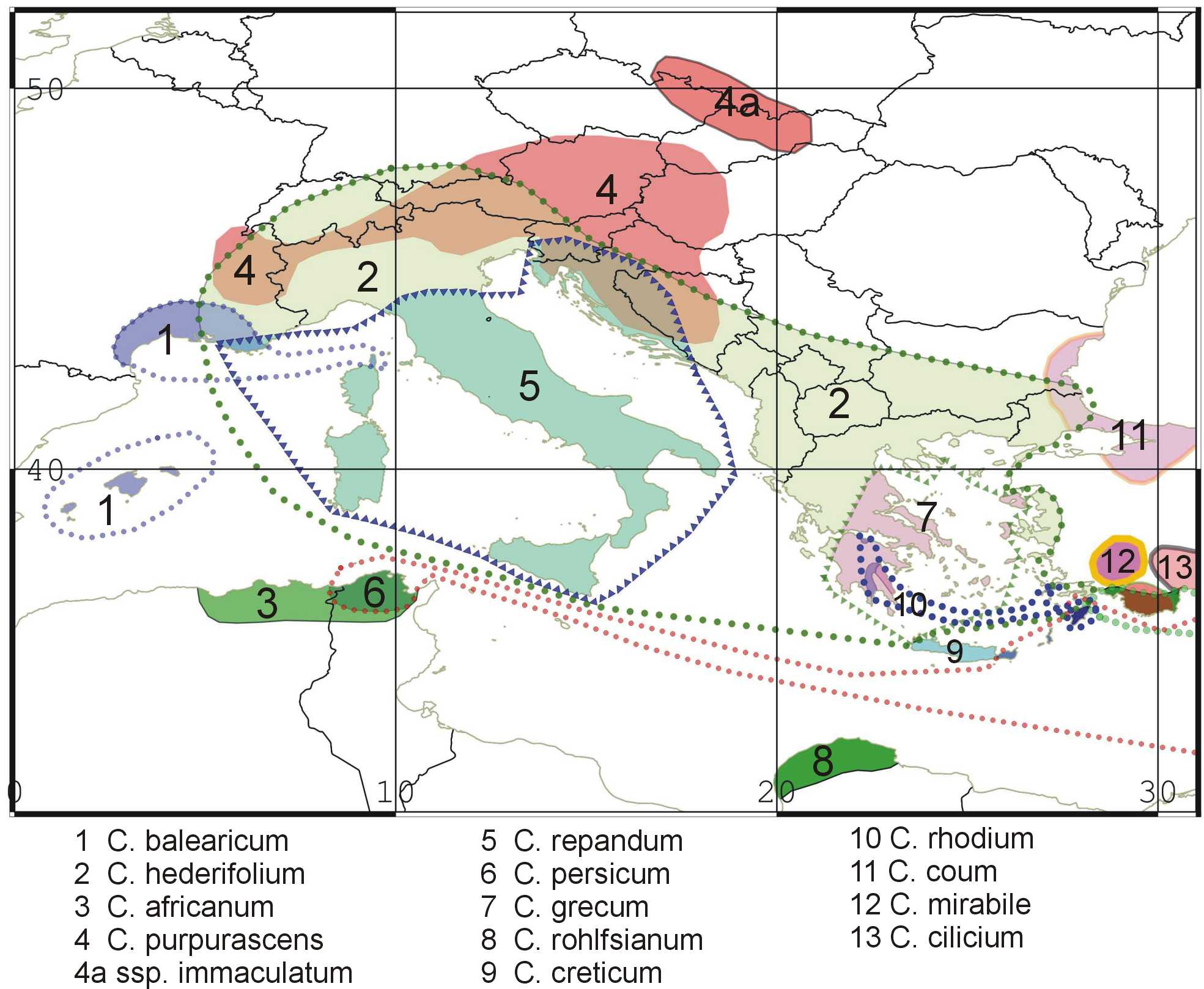 Distribution map of 13 species of the genus cylamen in the western part of its natural distribution. (Presumed spread according to wikipedia sources and informations from " ")